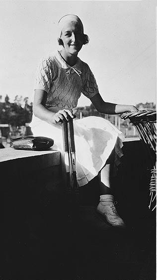 A digital image of the portrait of Joan Hartigan is available from the National Library of Australia (NLA) website. The NLA image contains spurious indexing information along the bottom.